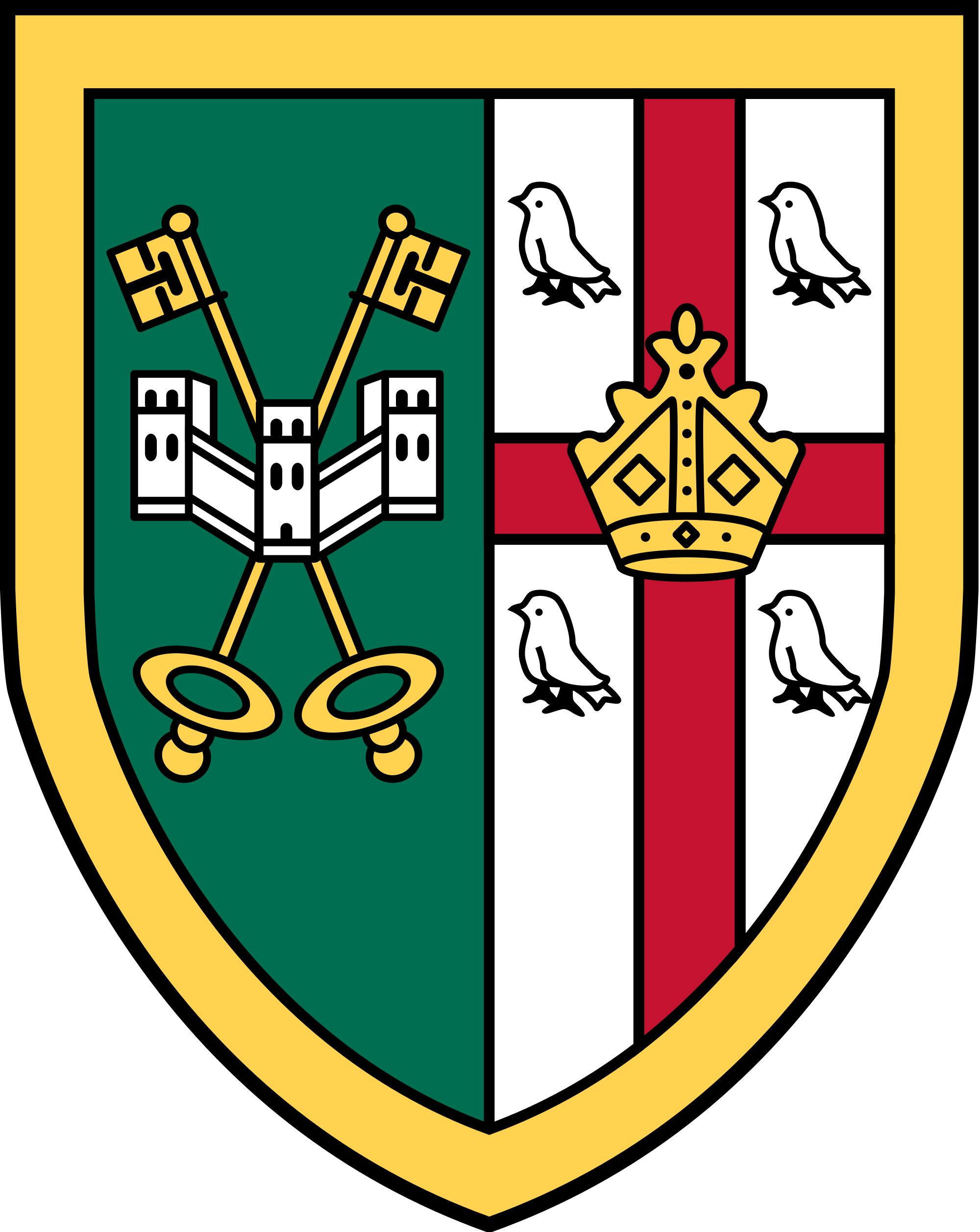 St. Peter's College Coat of Arms